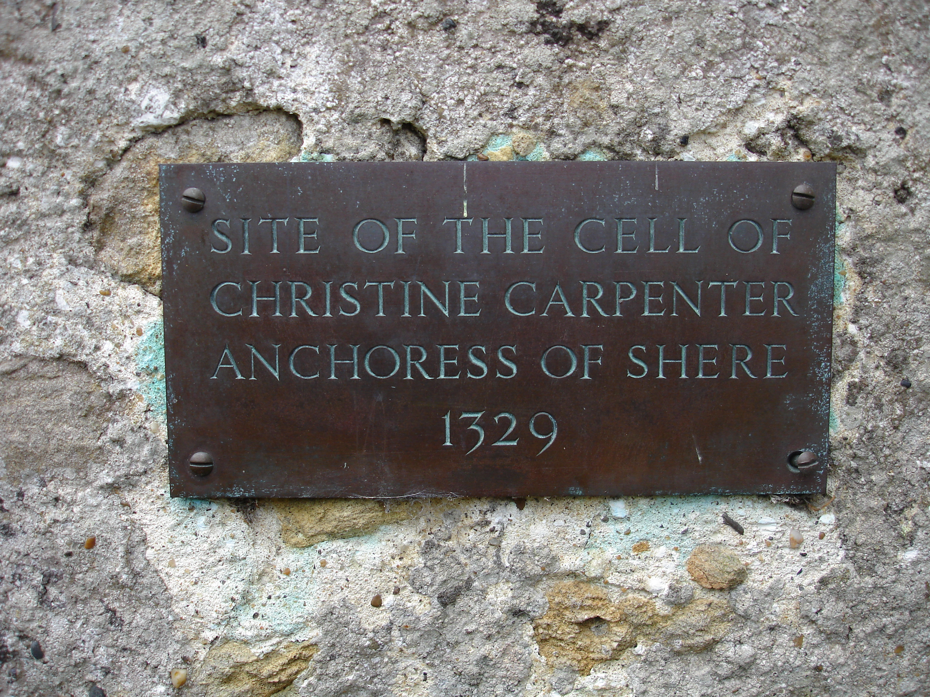 The church at Shere, Surrey, England had a cell for an anchoress (Christine Carpenter). Suzanne Knights, February 2007, my photo